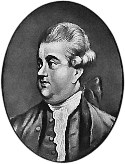 Portay of Edward Gibbon.